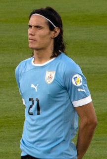 Uruguay vs Chile, 2011-11-11